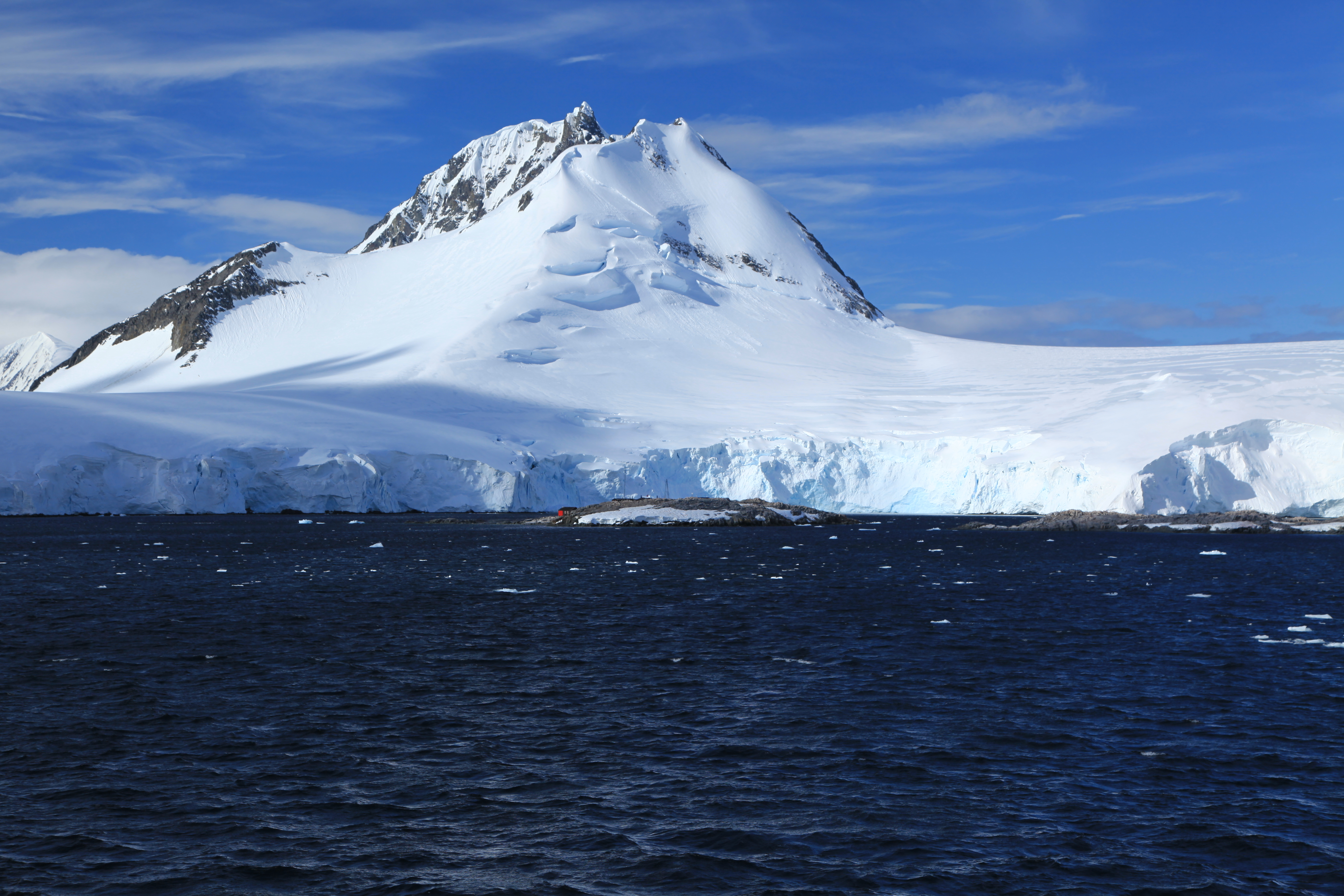 British Base A at Port Lockroy, Antarctica